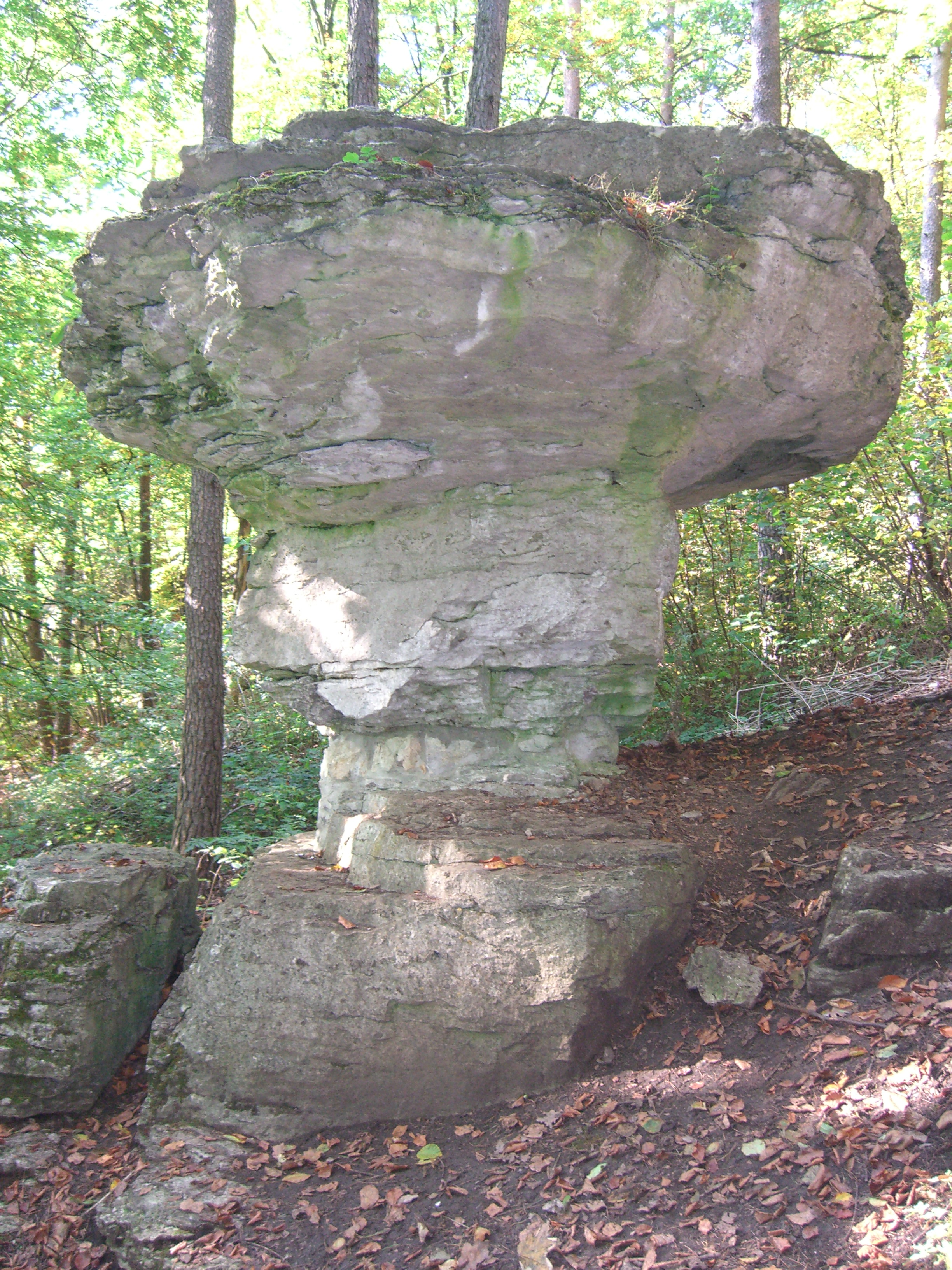 The "Teufelstisch" of Igensdorf (devil's table) near Igensdorf in Bavaria, Germany.